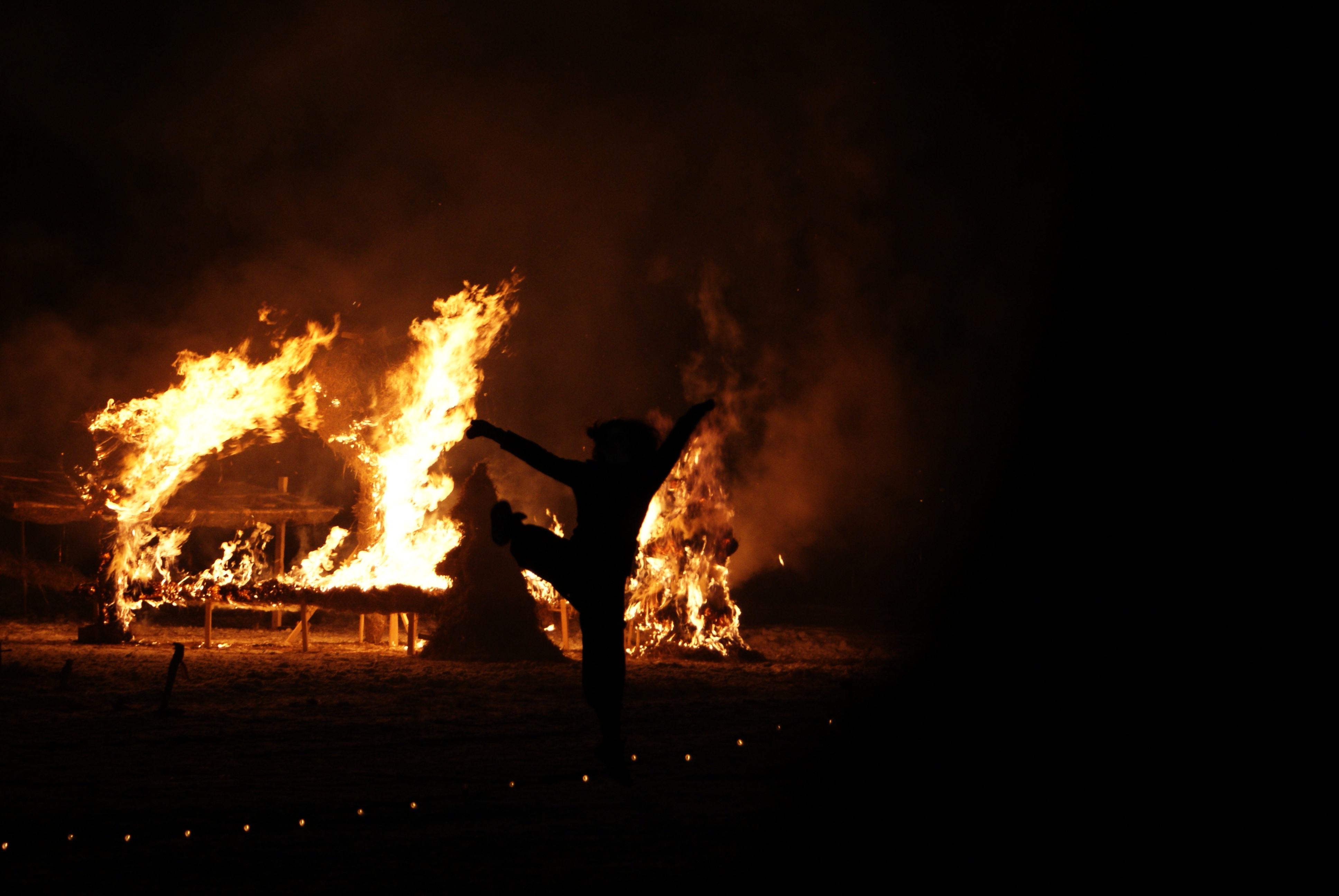 From the public performance Eldkonst in Karlstad 2008.